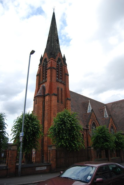 St John's Church, Sparkhill, CTYPE html PUBLIC "-//W3C//DTD XHTML 1.0 Strict//EN" " St John's Church, Sparkhill:: OS grid SP0984 :: Geograph Britain and Ireland - photograph every grid square! Geograph - photograph every grid square SP0984 : St John's Church, Sparkhill near to Moseley, Birmingham, Great Britain.